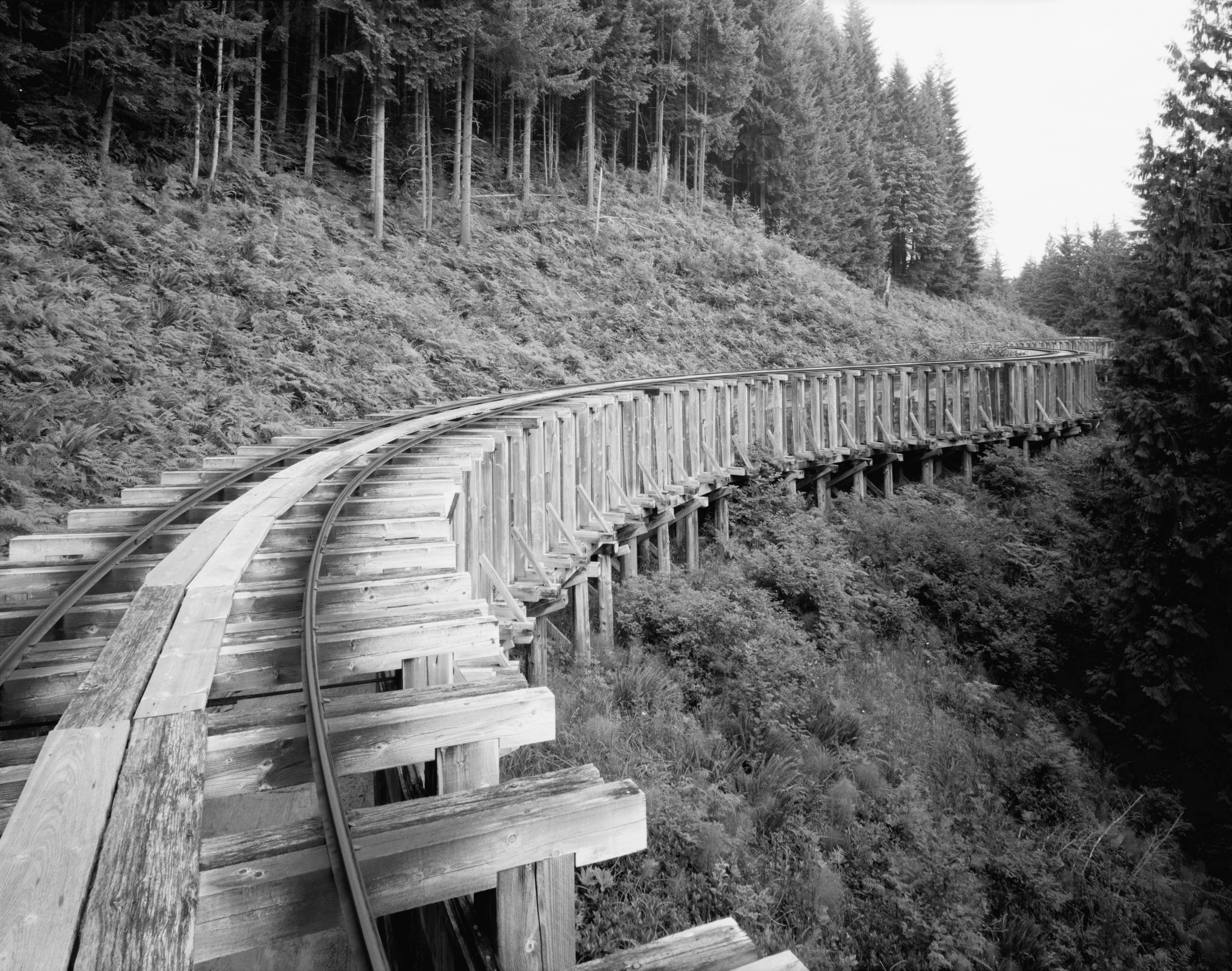 Shuffleton, Samuel L; Puget Sound Power and Light Company; Congdon, Chester A; Stone and Webster; Webster, Edwin S; Stone, Charles A; Columbia Improvement Company; Mitchell, S Z; Quinan, C E; Harrisburger, J; Yearby, Jean P, transmitter; Fitzsimons, Gray, historian; Garvey, Dick, photographer; Lombard, Barry, historian